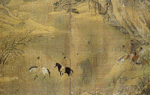 Gimadogangdo, by Yi jae-hyun